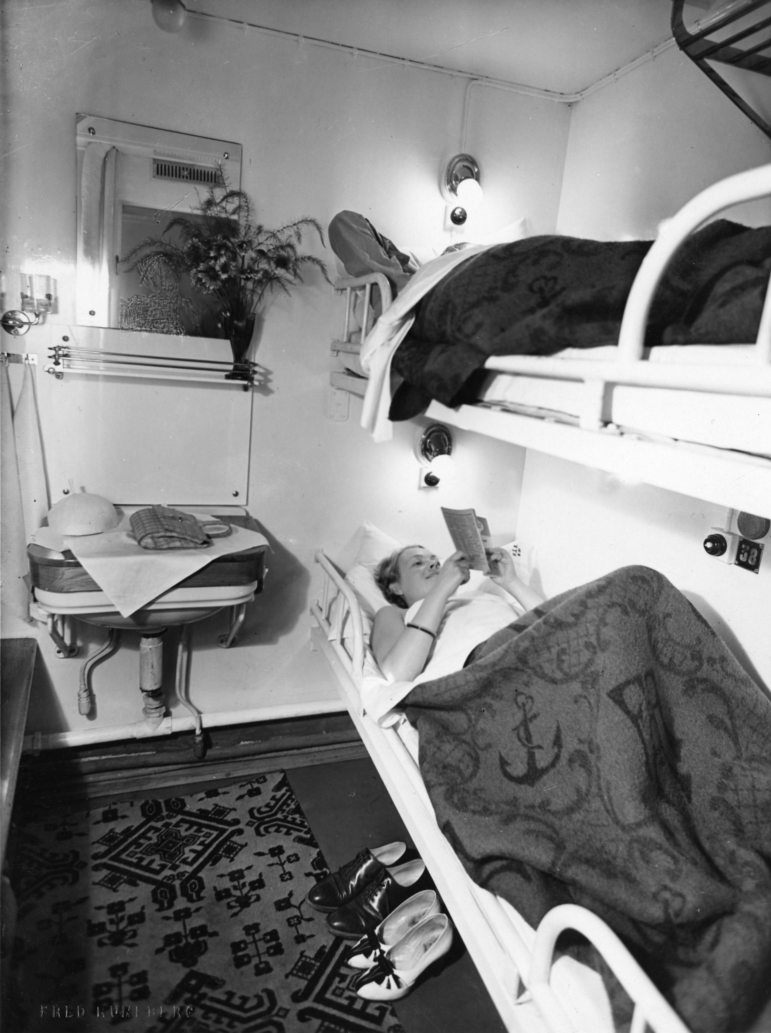 Tourist class cabin onboard s/s Aallotar, 1937-1945